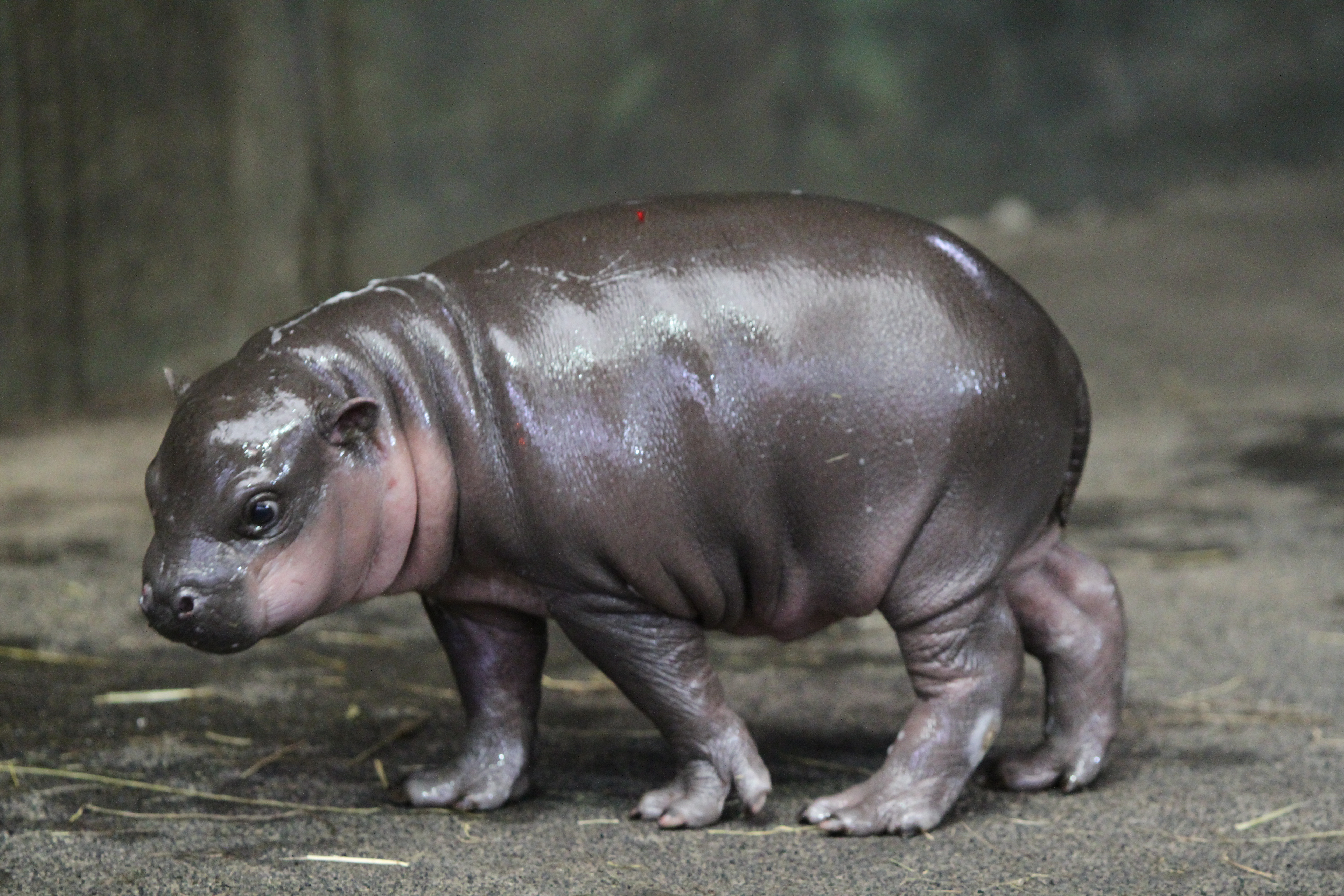 Baby hippo in Diergaarde Blijdorp